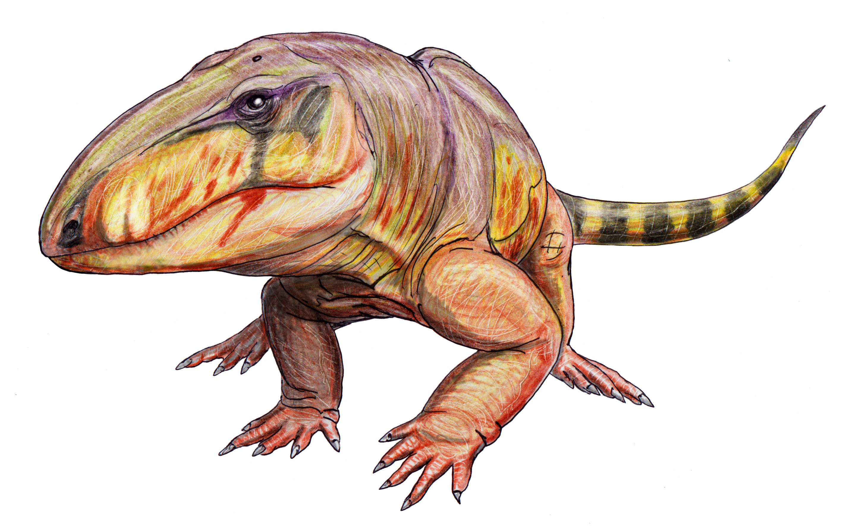 Stereophallodon ciscoensis , ophiacodont from Pueblo Formation (Cisco Group), Early Permian, Wolfcamp (296.4 - 268.0 Ma) of Clay County, Texas